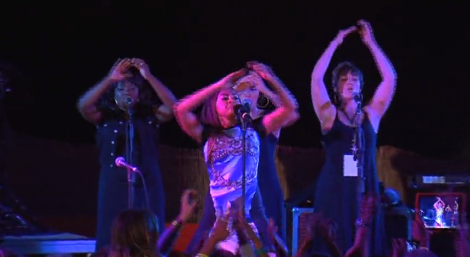 Jessica Mauboy performing "Burn" at the 2013 Mbantua Festival, honoring Aboriginal Australian arts, language and culture.